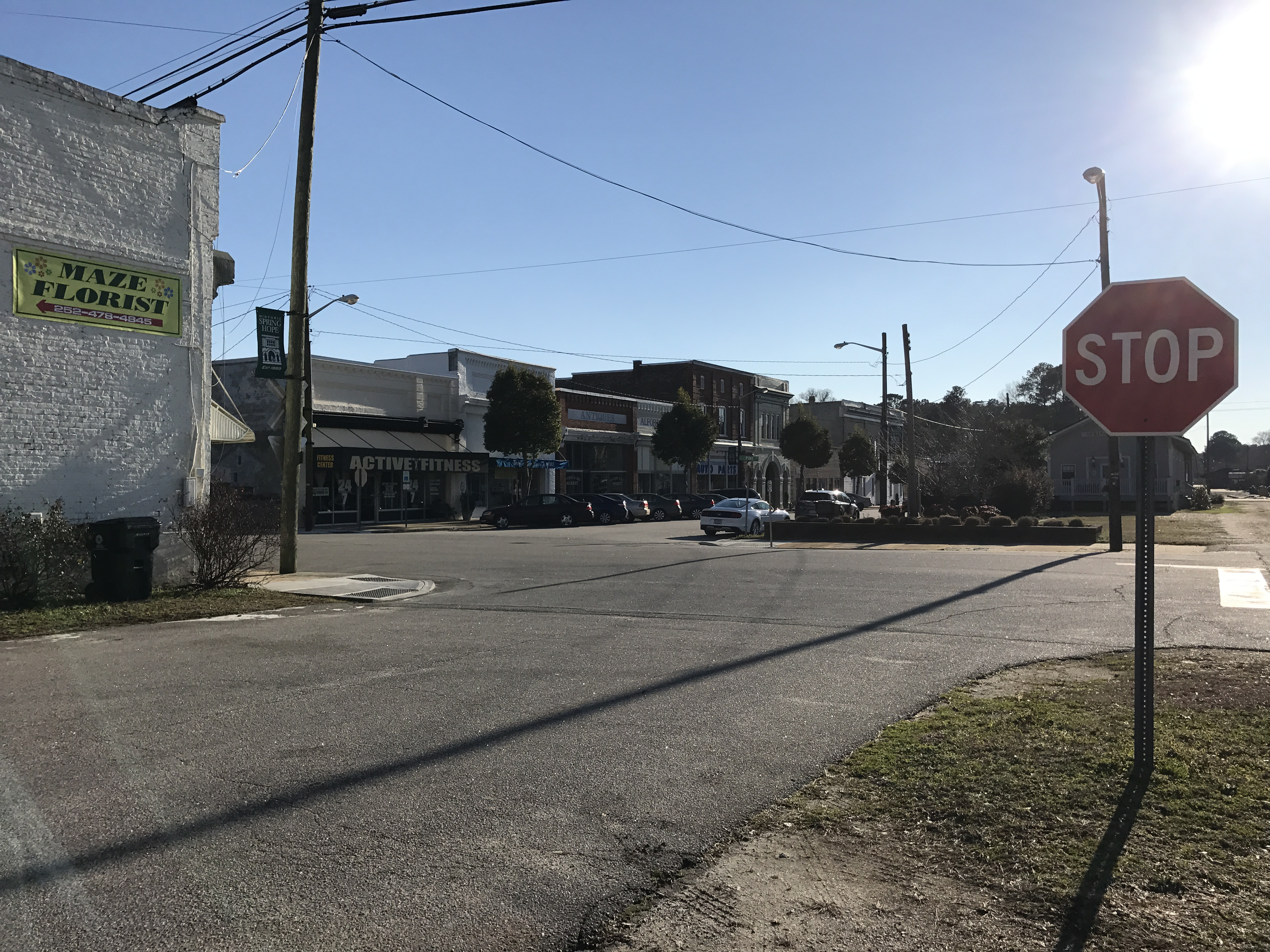 Buildings along western Main Street in downtown Spring Hope, North Carolina. Photo taken from eastern Main Street.